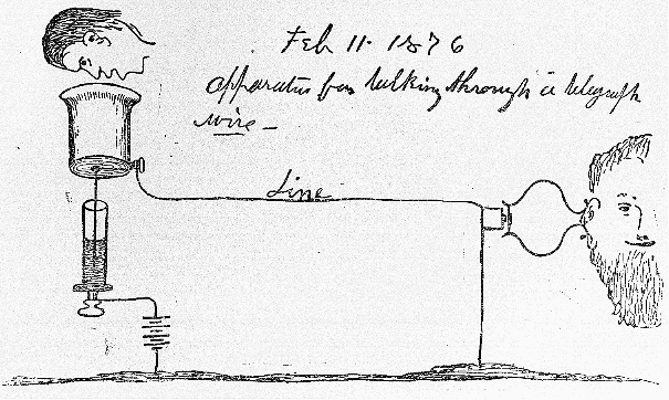 Excerpt from Elisha Gray's notebooks showing the first diagram of the telephone.